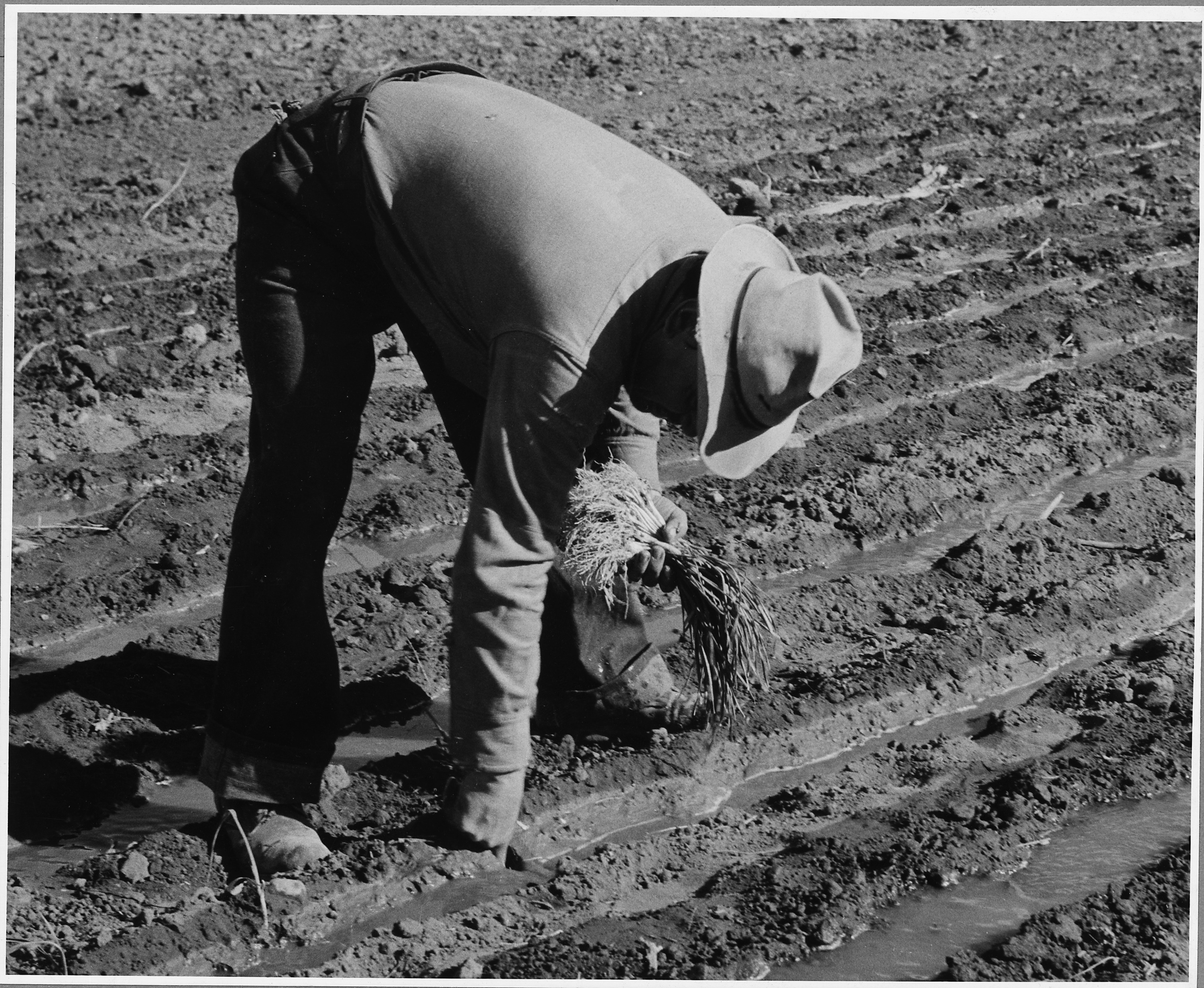 Scope and content: Full caption reads as follows: El Cerrito, San Miguel County, New Mexico. The staple crops in El Cerrito are corn, beans and alfalfa. Almost everything is grown on irrigated land although there are a few fields on the mesa where a certain amount of dry farming is carried on. Most of the corn is of the native blue type which was first grown here by the Indians. Some of the other types of corn are fed to stock, but never the blue. Alfalfa produces more feed per acre than any other plant and for this reason more than half the irrigated land is devoted to this crop. There is little commercial farming in the village. A few sacks of beans or bushels of peaches are sold each year, and two families have small flocks of sheep which brings in a little money - but for the most part the emphasis here is on subsistence farming. Food is produced for home consumption. Even the livestock economy is at the subsistence level, with each family owning one or two horses, a cow or steer, eight or ten chickens and perhaps a pig. Money when there is any, comes from outside work. Irrigating one of the valley fields. Onion sets are being planted here.